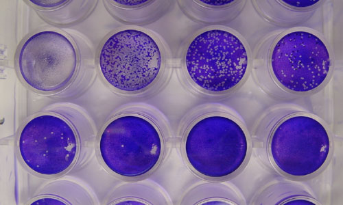 Photograph of viral plaque formation to count viral titer (plaque assay). Vero cells, which grew confluently on the bottom of the 24-well plastic plate (1.5 cm diameter each), were infected with serially diluted solutions containing herpes simplex virus, and then cultured over night to make viral plaque. The number of plaques indicates the number of the infectious virus (= viral titer, as plaque forming unit). Photo: 4-fold dilution series from top-left to bottom-right. Living cells were stained with crystal violet. The viral plaques, each was from one virion, remained transparent.